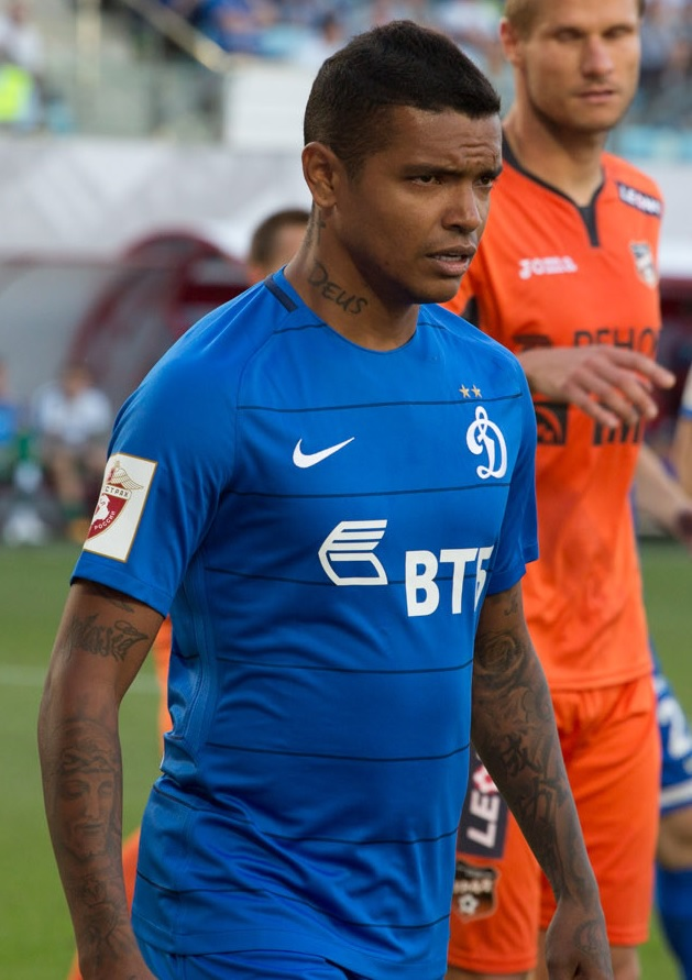 Wánderson with FC Dynamo Moscow in a game against FC Ural Yekaterinburg.